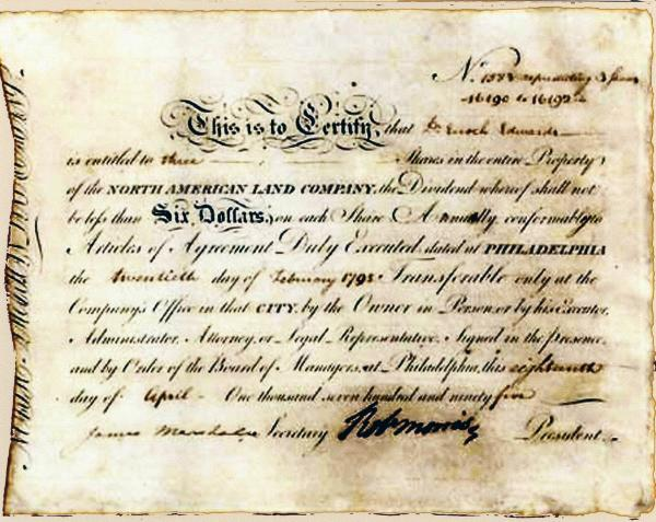 A share issued by the North American Land Company of Washington, D.C., in the United States. This stock certificate, issued in 1795, is signed by one of the three principal investors in the company, the merchant and financier Robert Morris.